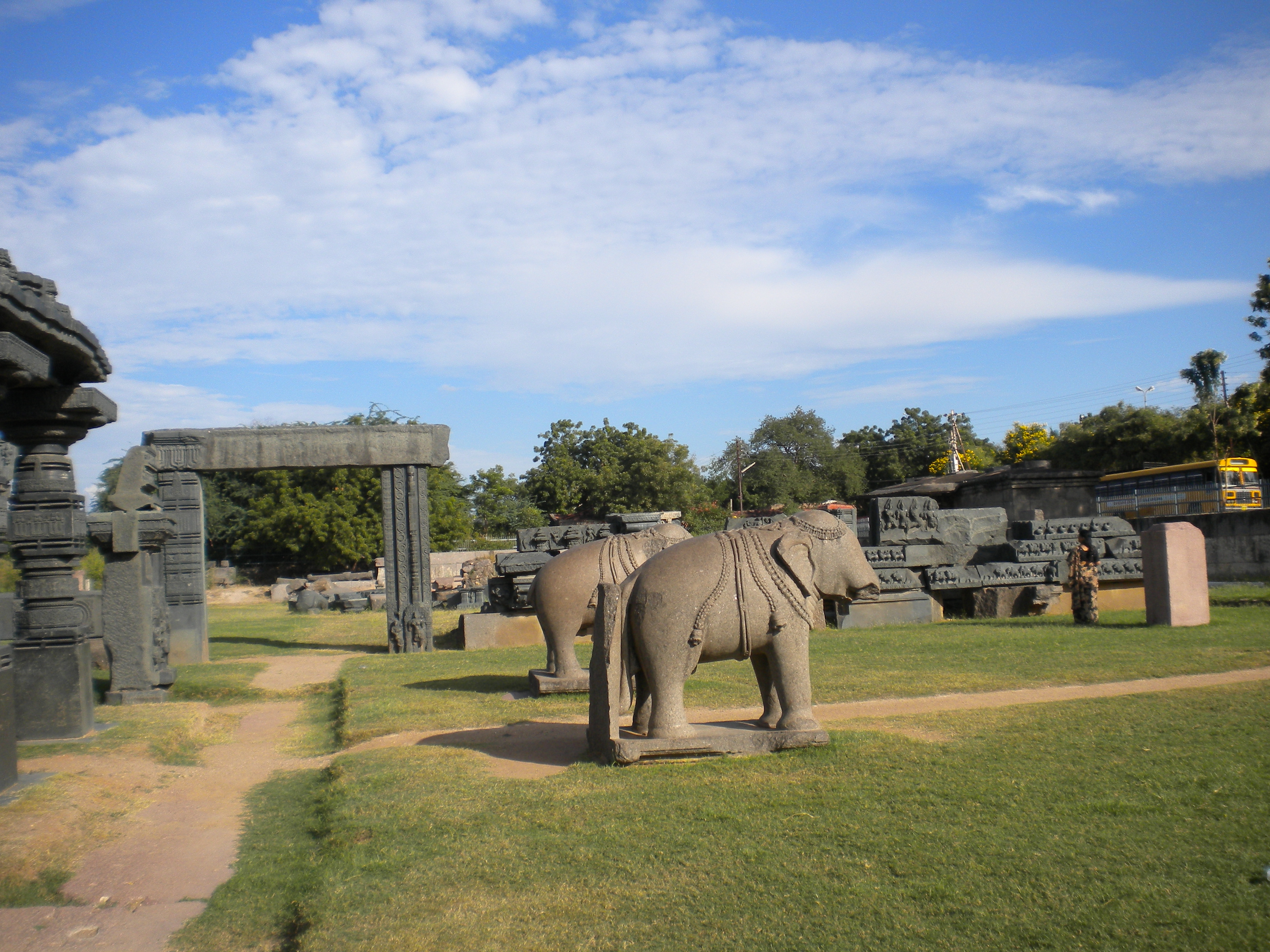 ARCHITECTURE OF FORT